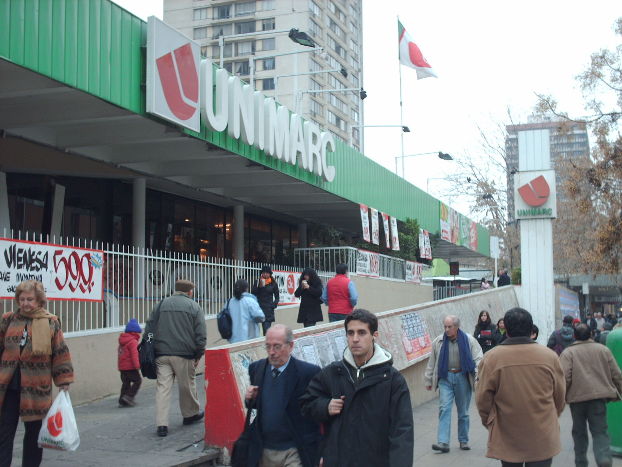 Unimarc supermarket in Portugal Avenue, Santiago, Chile.